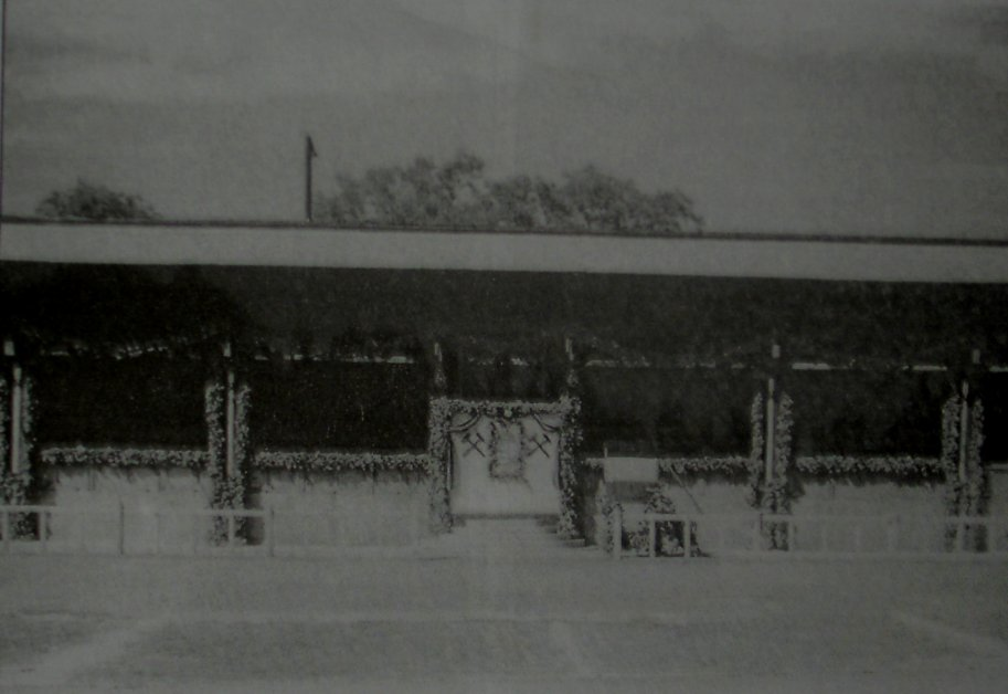 The stadium got often festive decoration and ornaments special between the two world wars.